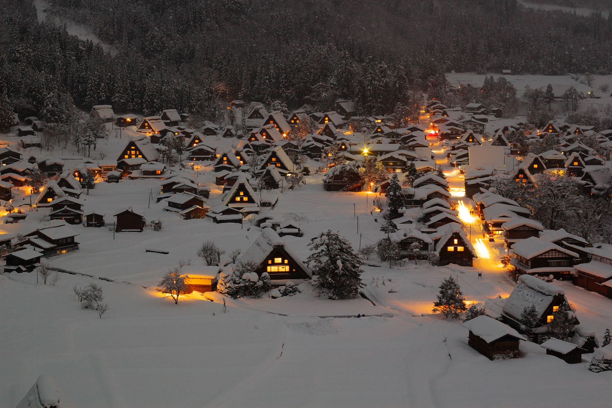 World Heritage Ogimachi Gassho Village, Shirakawa, Gifu Prefecture, Japan.